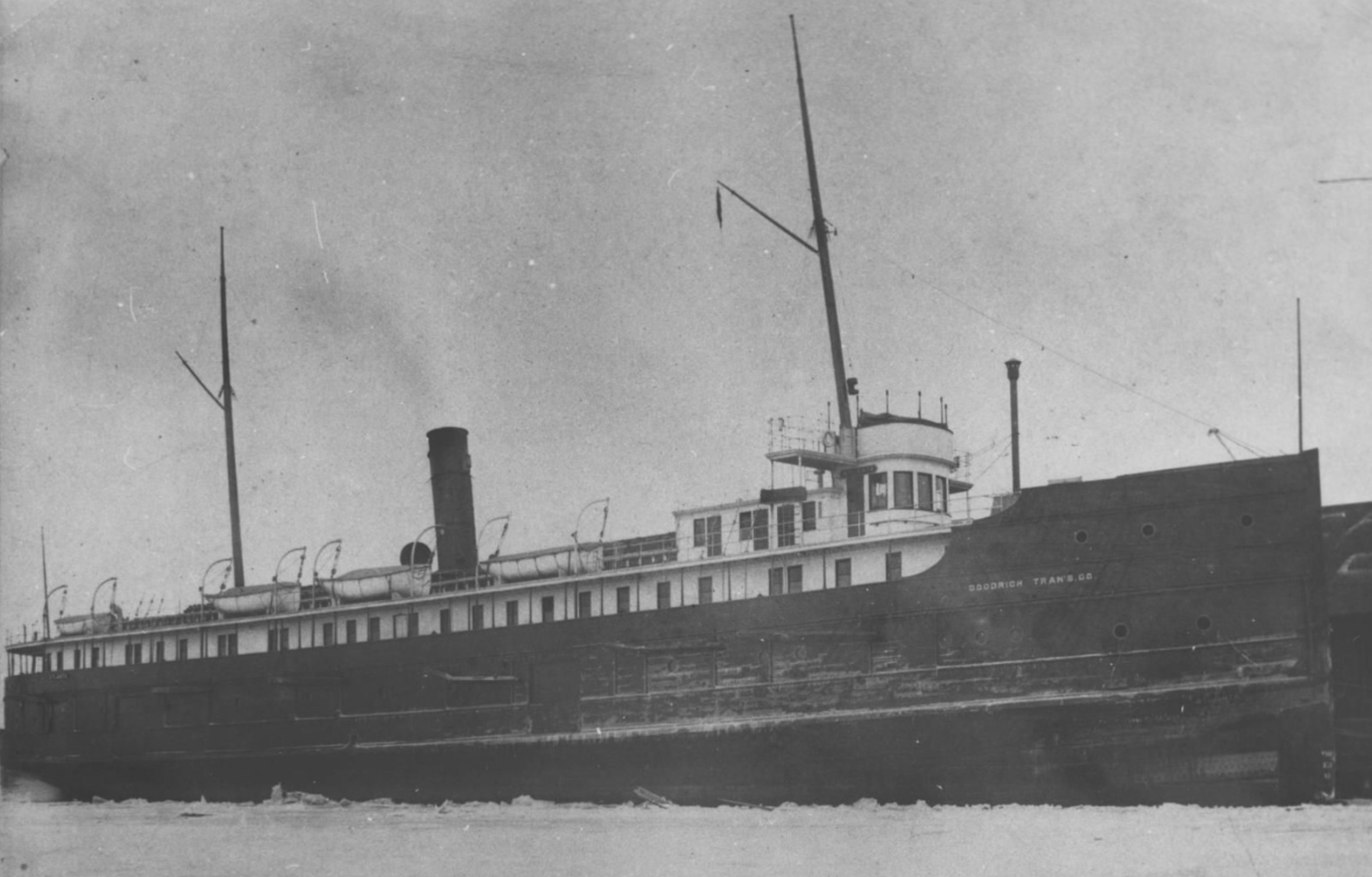 The steamer Atlanta underway